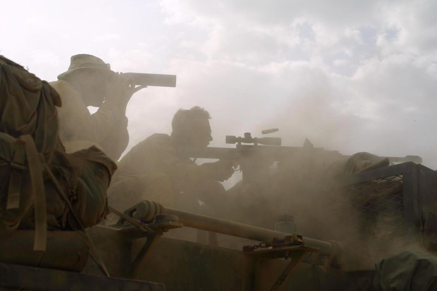 U.S. Marines from 26th Marine Expeditionary Unit (Special Operations Capable) in Djibouti as part of Combined Joint Task Force - Horn of Africa. Photograph taken July 15, 2003.